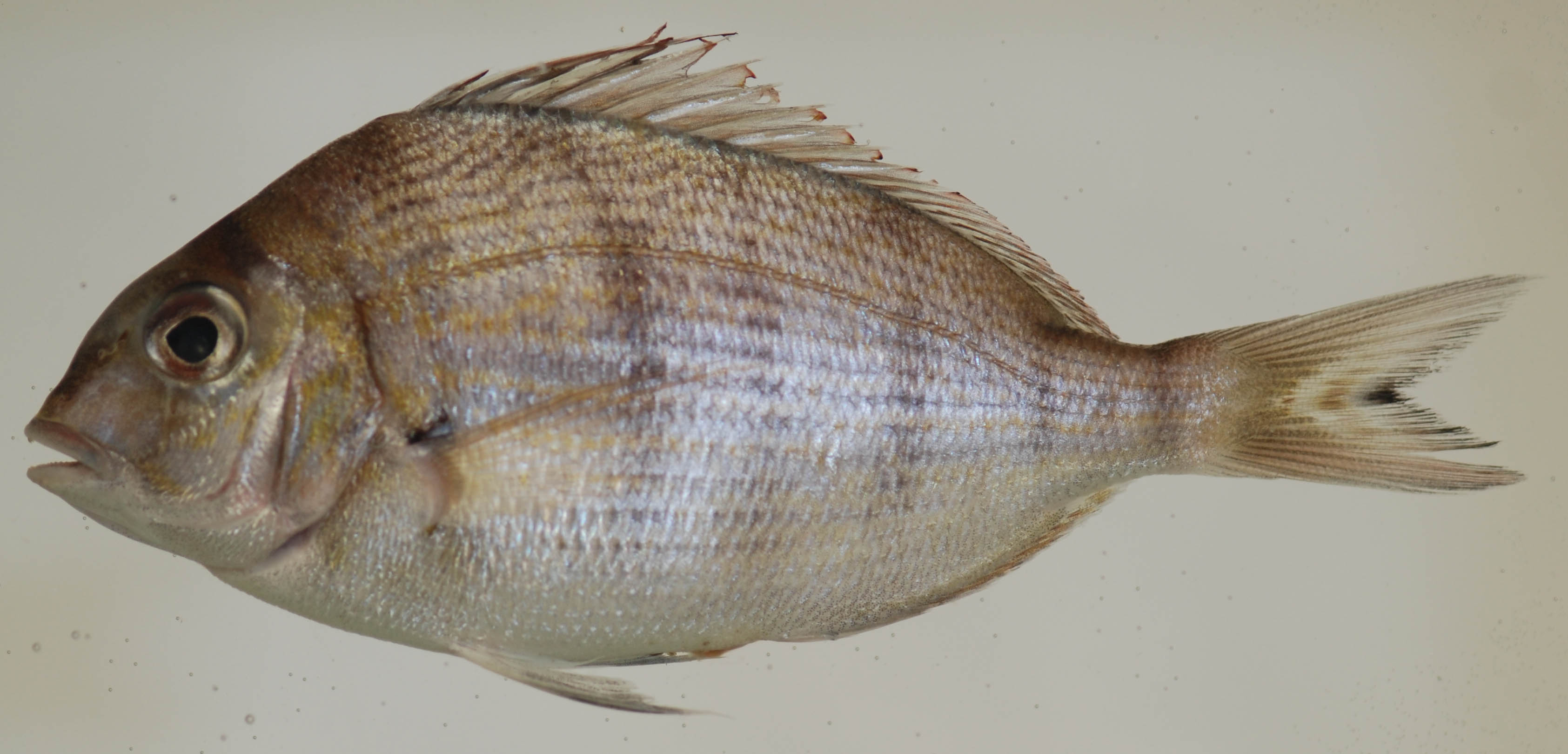 scup, Stenotomus chrysops, 103mm SL. Chesapeake Bay Bridge and Tunnel, Northampton County, VA - 09/13/12. Caught by VIMS Trawl Survey. Photo by Robert Aguilar, Smithsonian Environmental Research Center.